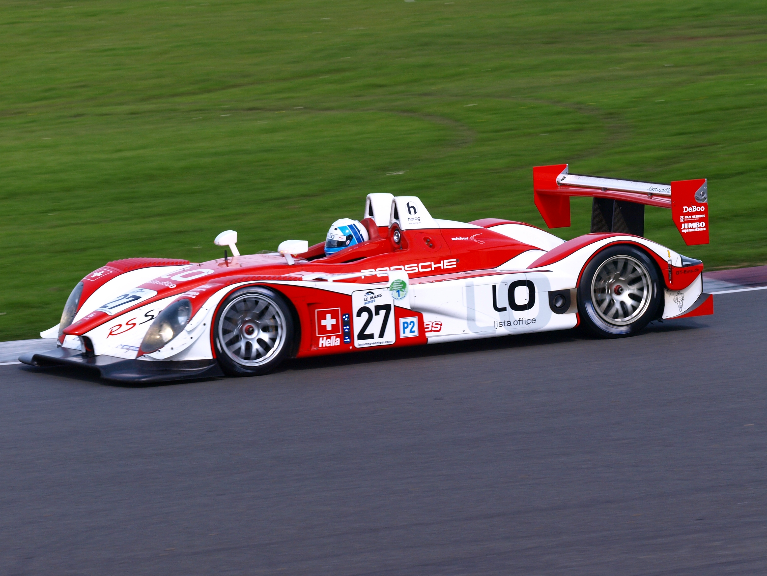 Horag Racing's Porsche RS Spyder at the 2008 1000km of Silverstone.